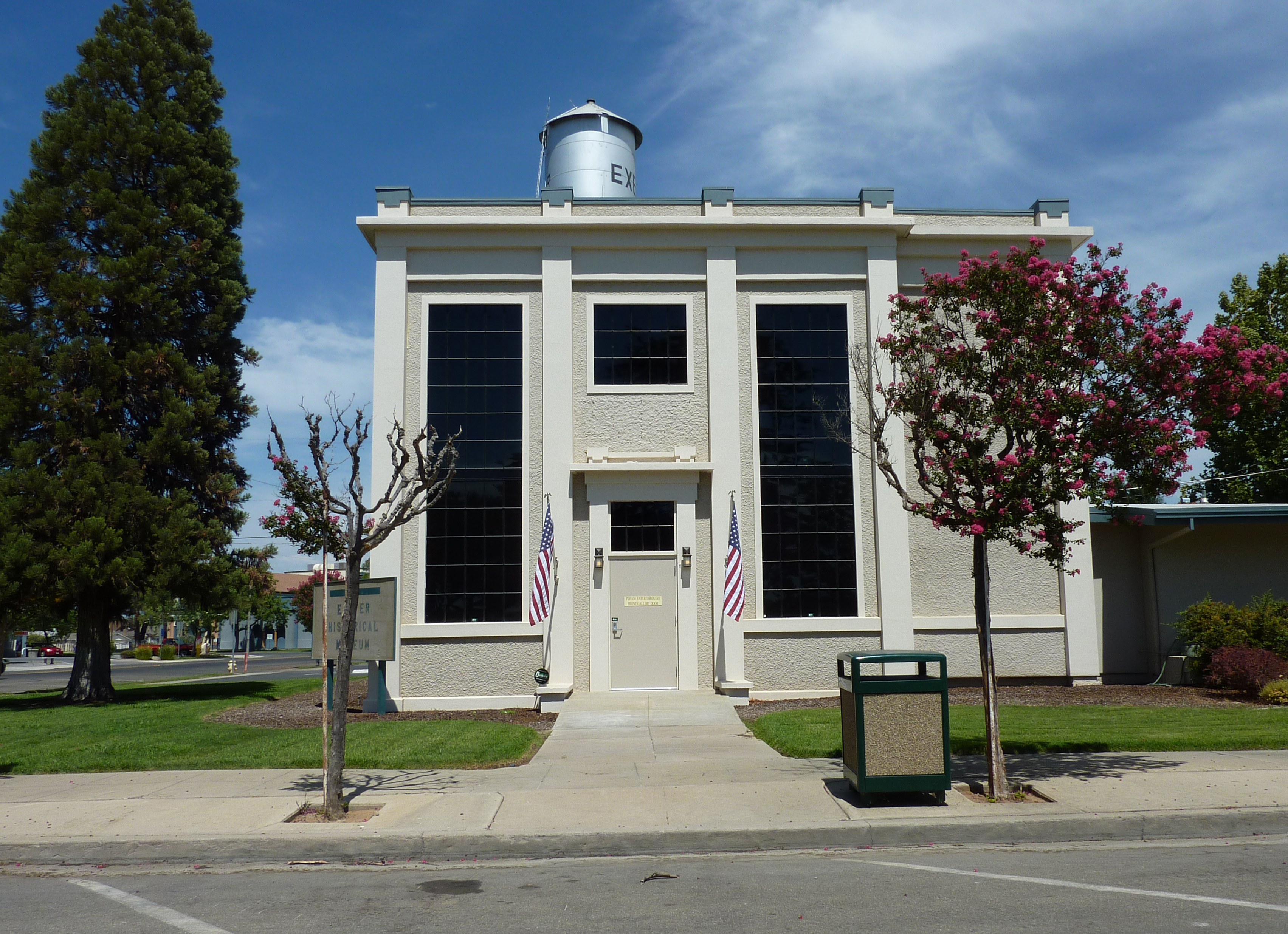 Exeter Historical Museum, housed in the old Mt. Whitney Power Company Substation, Exeter, California, USA.